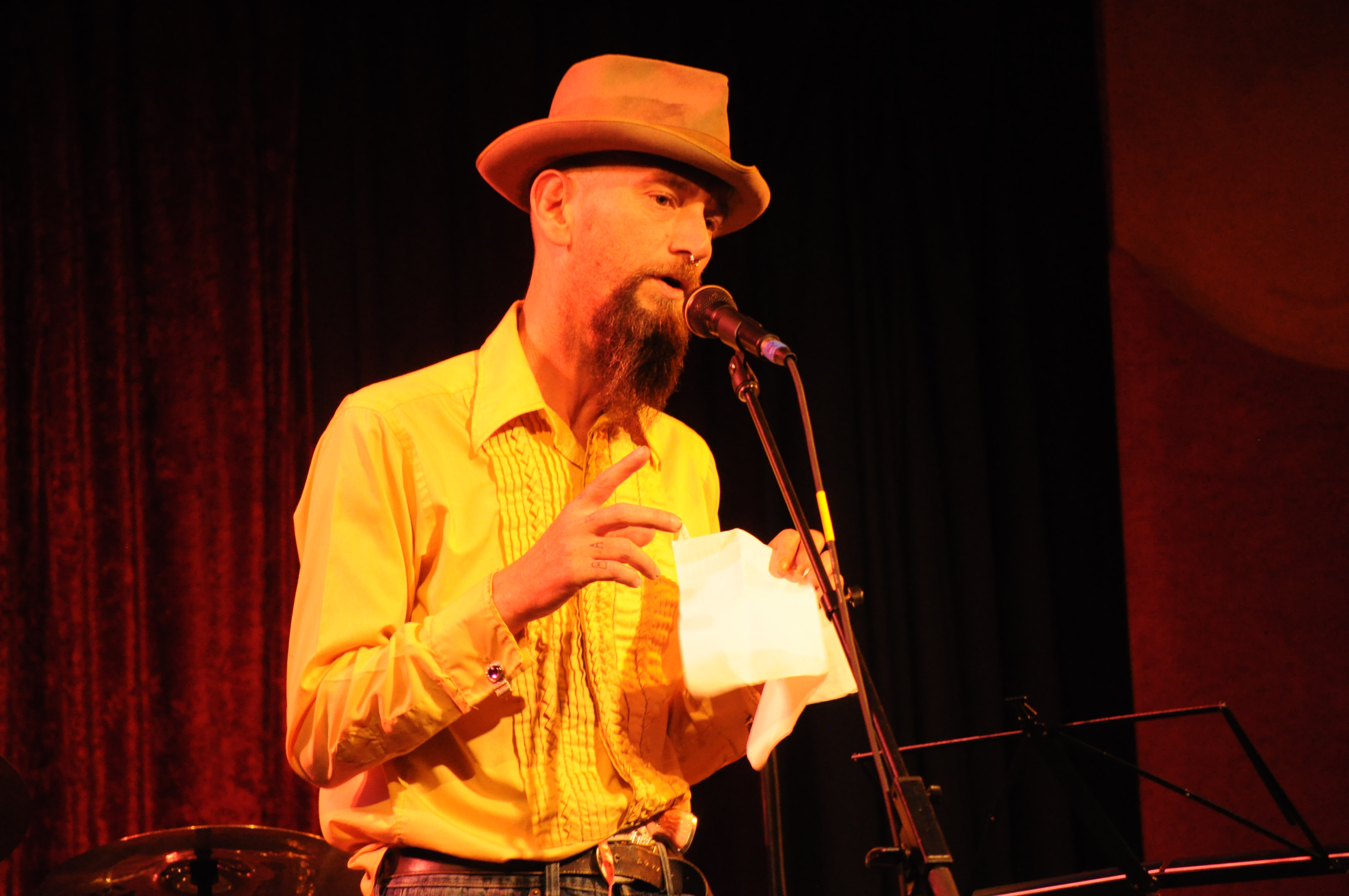 Drew Keriakedes, a.k.a Shmootzi the Clod, playing at a tribute to Ron Davies, Hale's Palladium, Seattle, Washington, USA. Drew was later one of the victims of the shootings at Seattle's Café Racer.